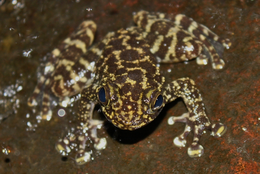 Amolops hongkongensis Taken in Pat Sin Leng Country Park.